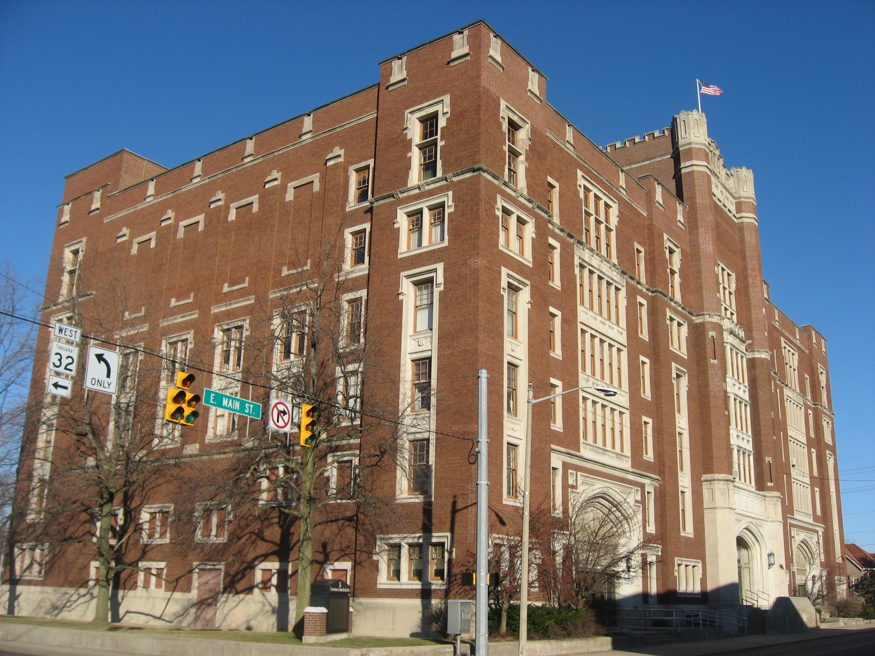 Front and western side of the Muncie Masonic Temple, located at 520 E. Main Street in Muncie, Indiana, United States. Built in 1920, it is listed on the National Register of Historic Places.